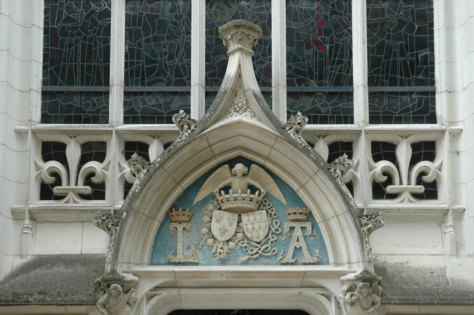 Château de Blois, gabel of the chapel's entracne